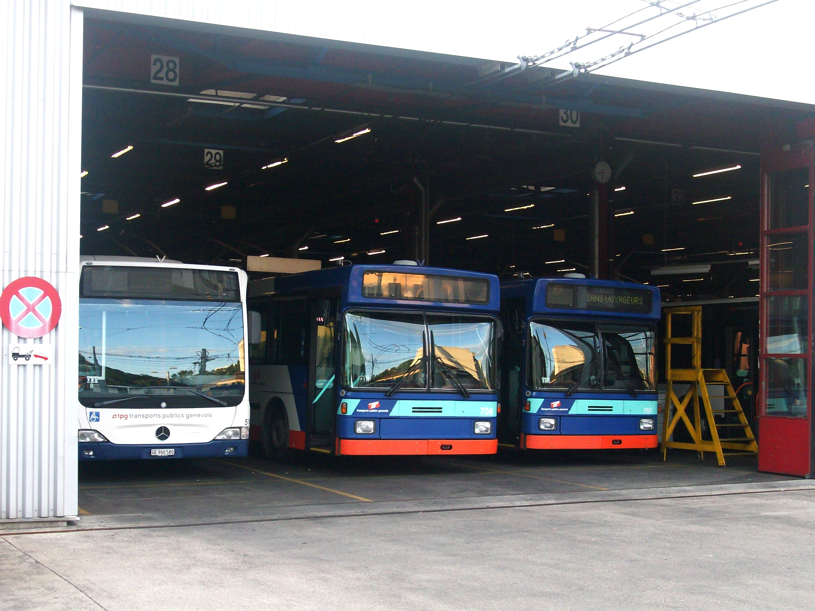 Mercedes-Benz Citaro G and trolleybuses (TPG), Geneva